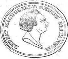 Jacobite medal showing Charles Edward Stuart (1720-1788)